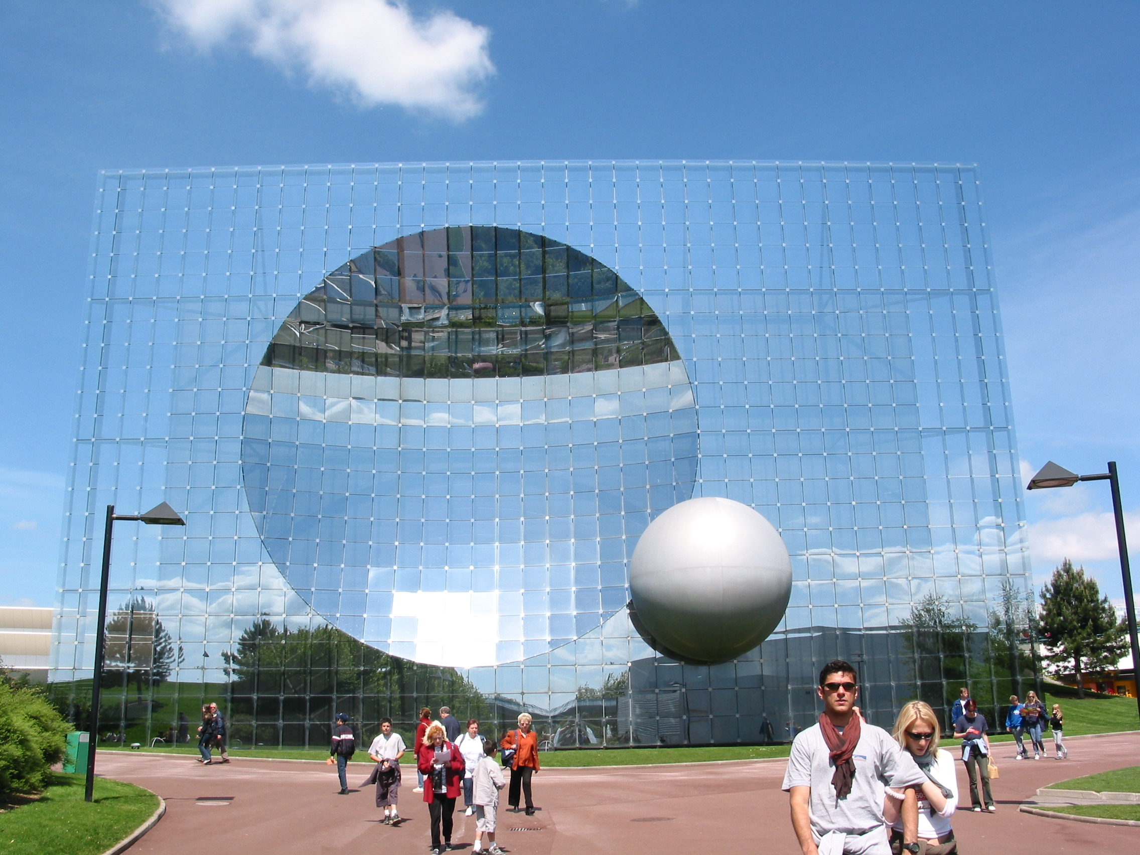 people who walk around with one of the buildings of the "Futuroscope" in the background